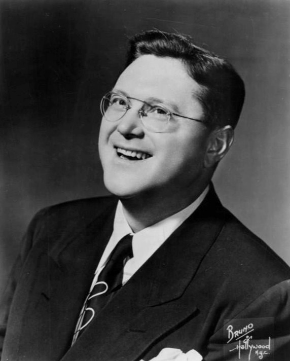 Publicity photo of Sam Levenson. Note: This image was previously licensed as non-free promotional.